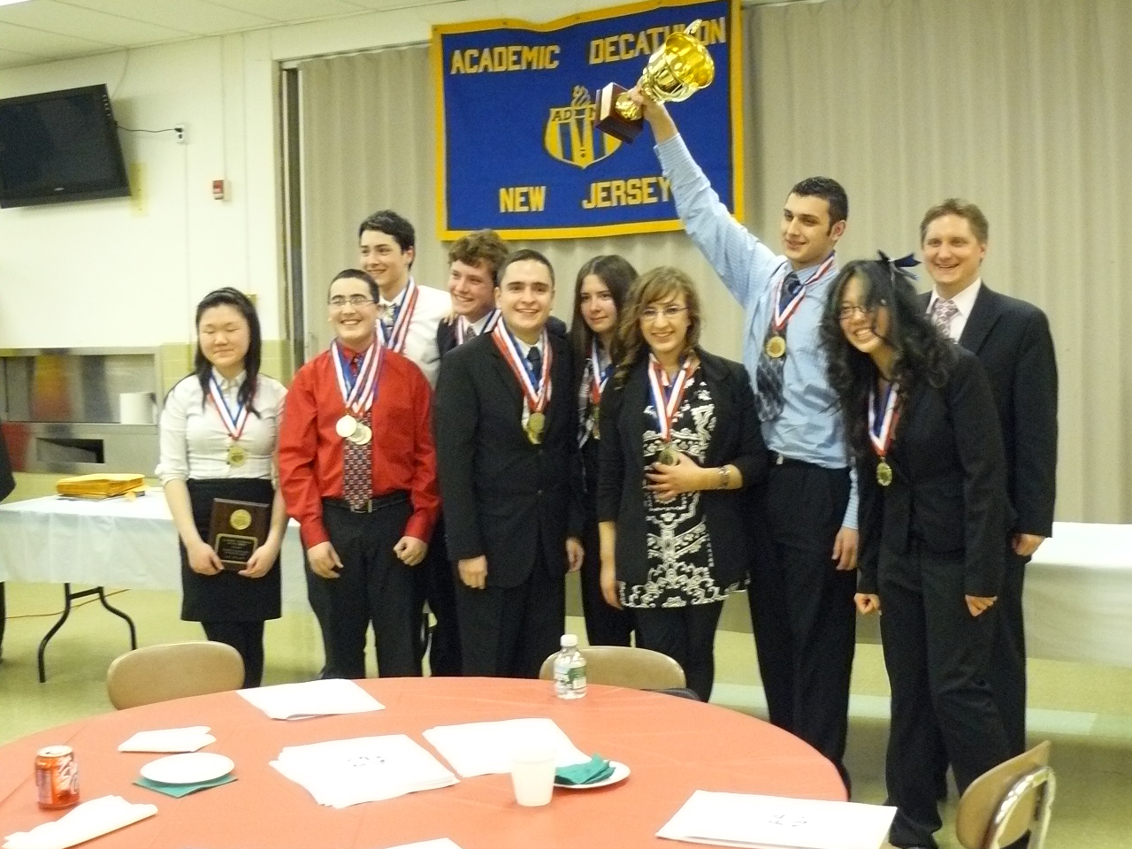 The Rutherford High School Academic Decathlon team (State champions 2009 and 2010).